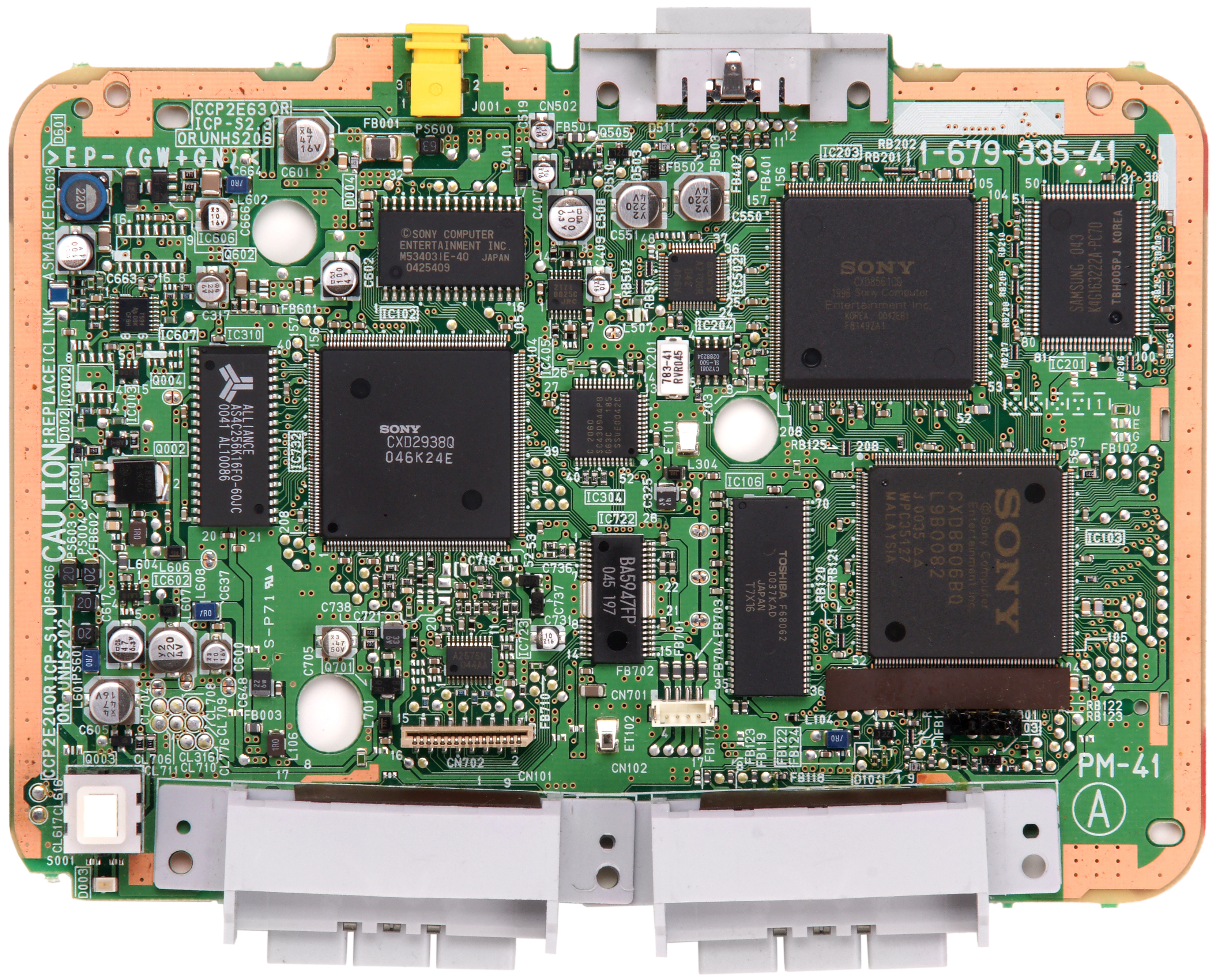 The motherboard to a Sony PSone video game console.